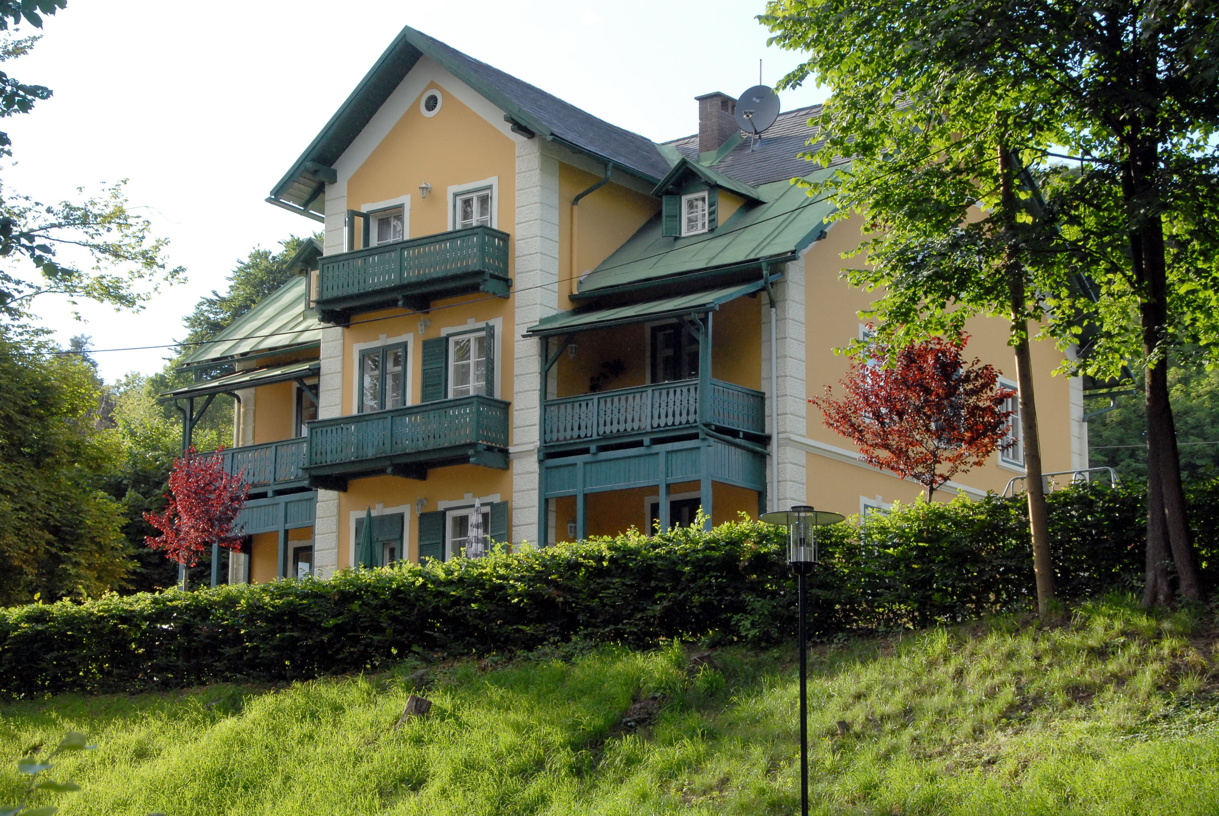 Villa Carinthia, built at the end of the 19th century, Bahnhofstraße 26 near the train-station in Velden, district Villach Land, Carinthia, Austria, EU